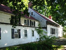 Dutch Colonial Farmhouse